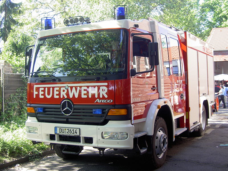 Rescue Engine of the voluntary fire brigade Duisburg, Fire Station 705 Mündelheim